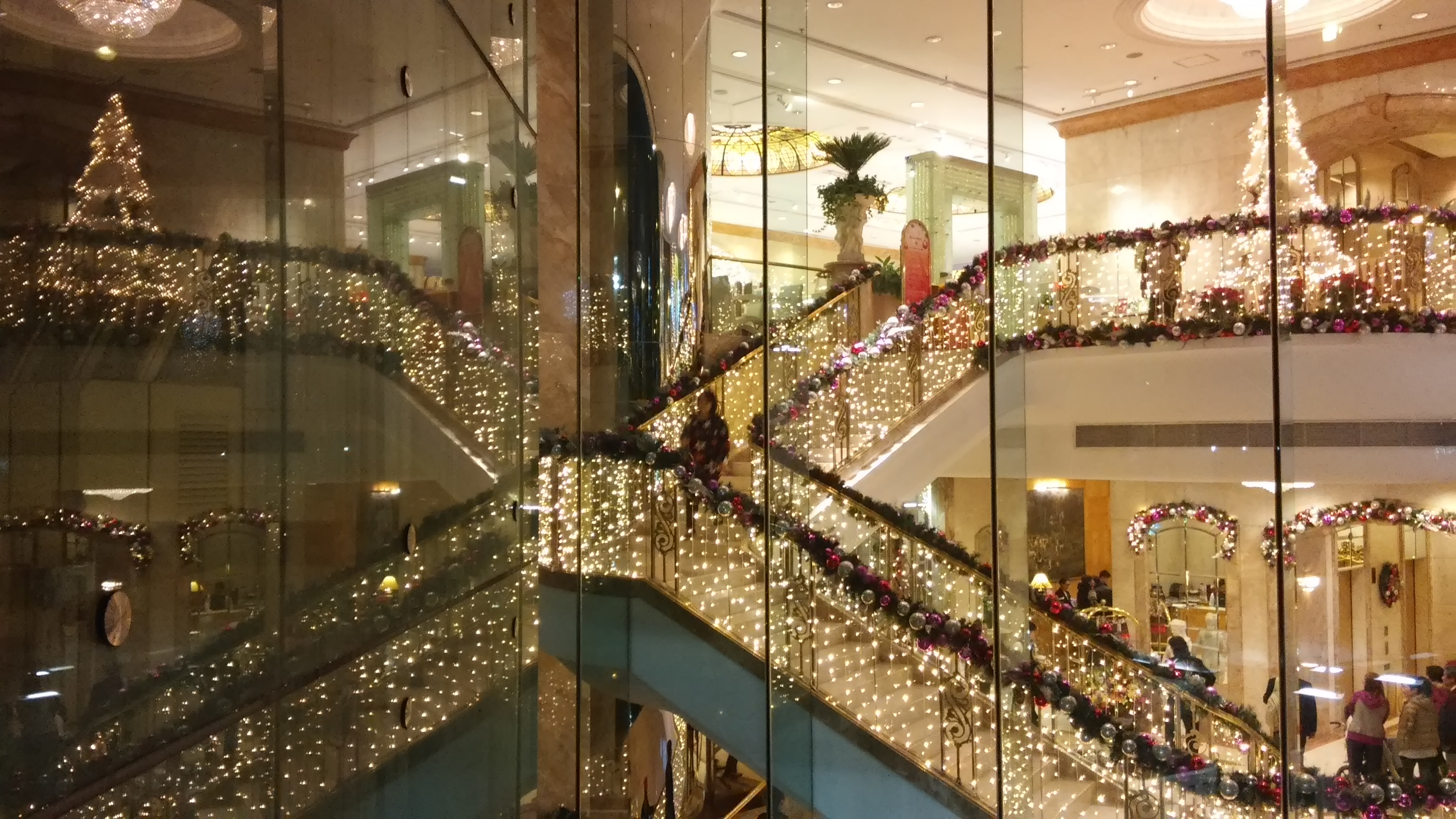 Lobby interior of 富豪香港酒店, Regal Hong Kong Hotel, Causeway Bay, Hong Kong